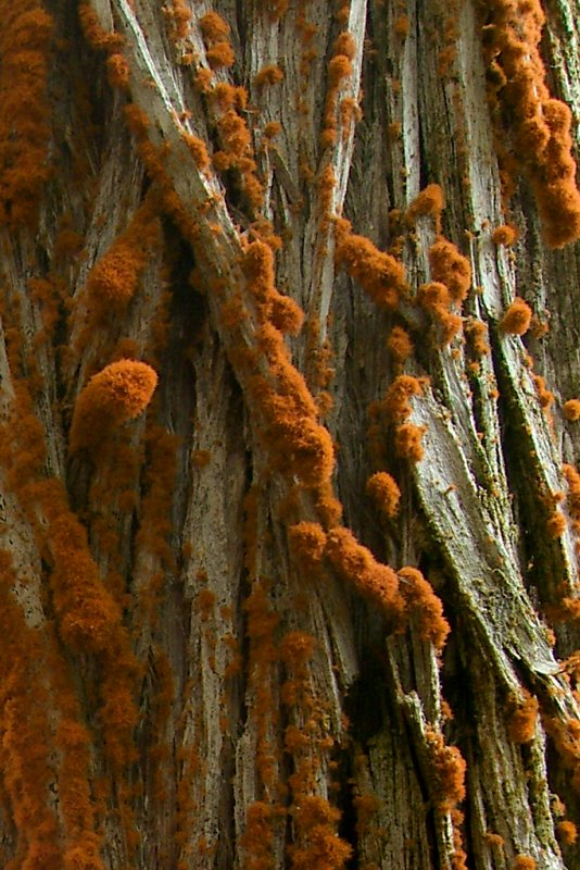 This green algae (Trentepohlia) is red-colored due to carotene content. It grows profusely on the rare Monterrey cypresses (Cupressus macrocarpa) at Point Lobos, California. Feb 25, 2007. This is particularly interesting, because this genus of green algae is known to associate with fungi to create a number of lichens, including, quite remarkably, the false orchil, which also grows in profusion in this self-same cypress grove! It makes one wonder if the lichen is using the same species of alga as you see growing on its own here.